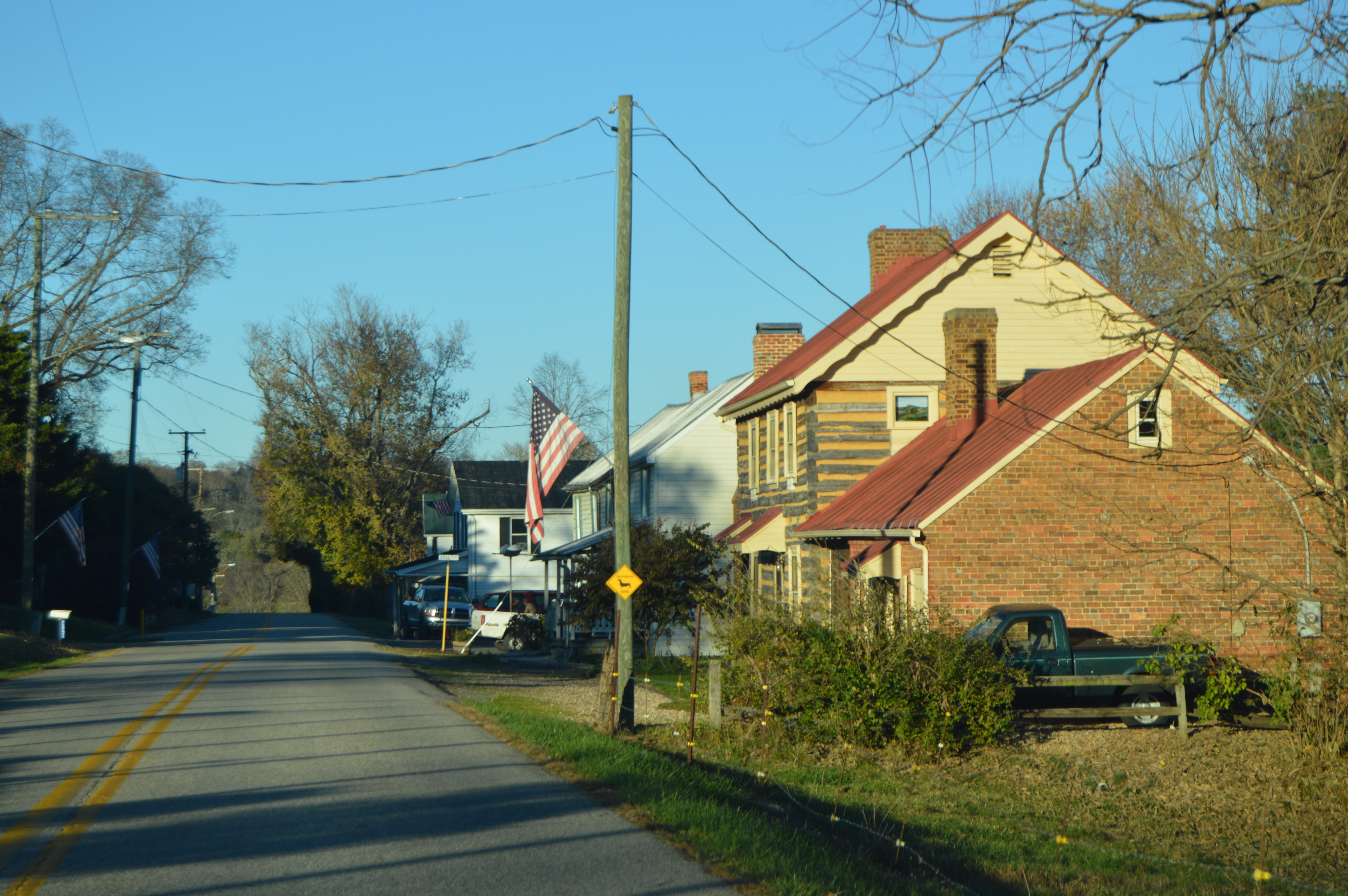 Entering the community of Brownsburg, Virginia, United States on northbound State Route 252. This portion of the community is part of the Brownsburg Historic District, a historic district that is listed on the National Register of Historic Places.